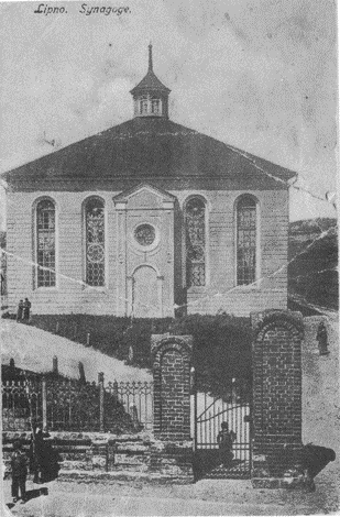 Synagogue in Lipno (Poland)